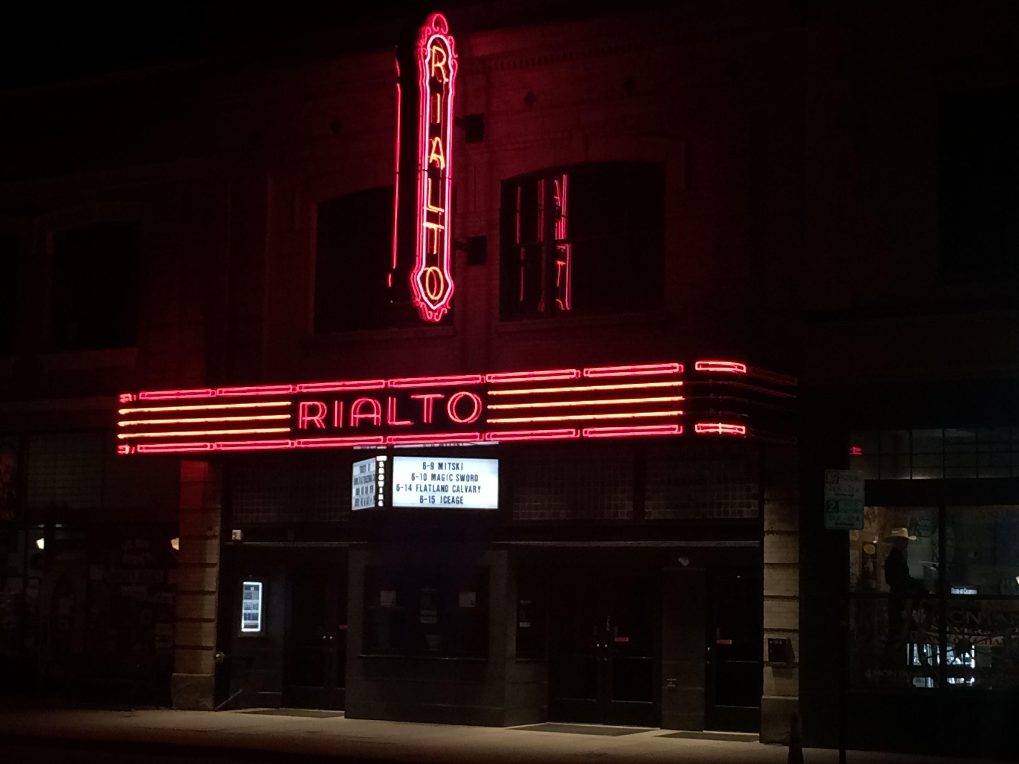 Following a complete restoration completed in 2018, the neon sign of the Rialto is lit at night.